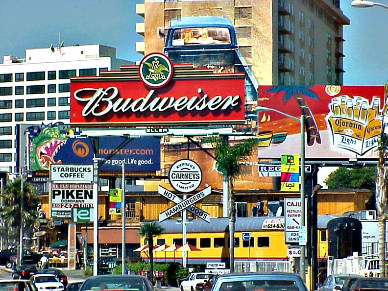 The very busy Sunset Strip Westbound Sunset Blvd through West Hollywood- Photographed by Jeff Costlow 2001